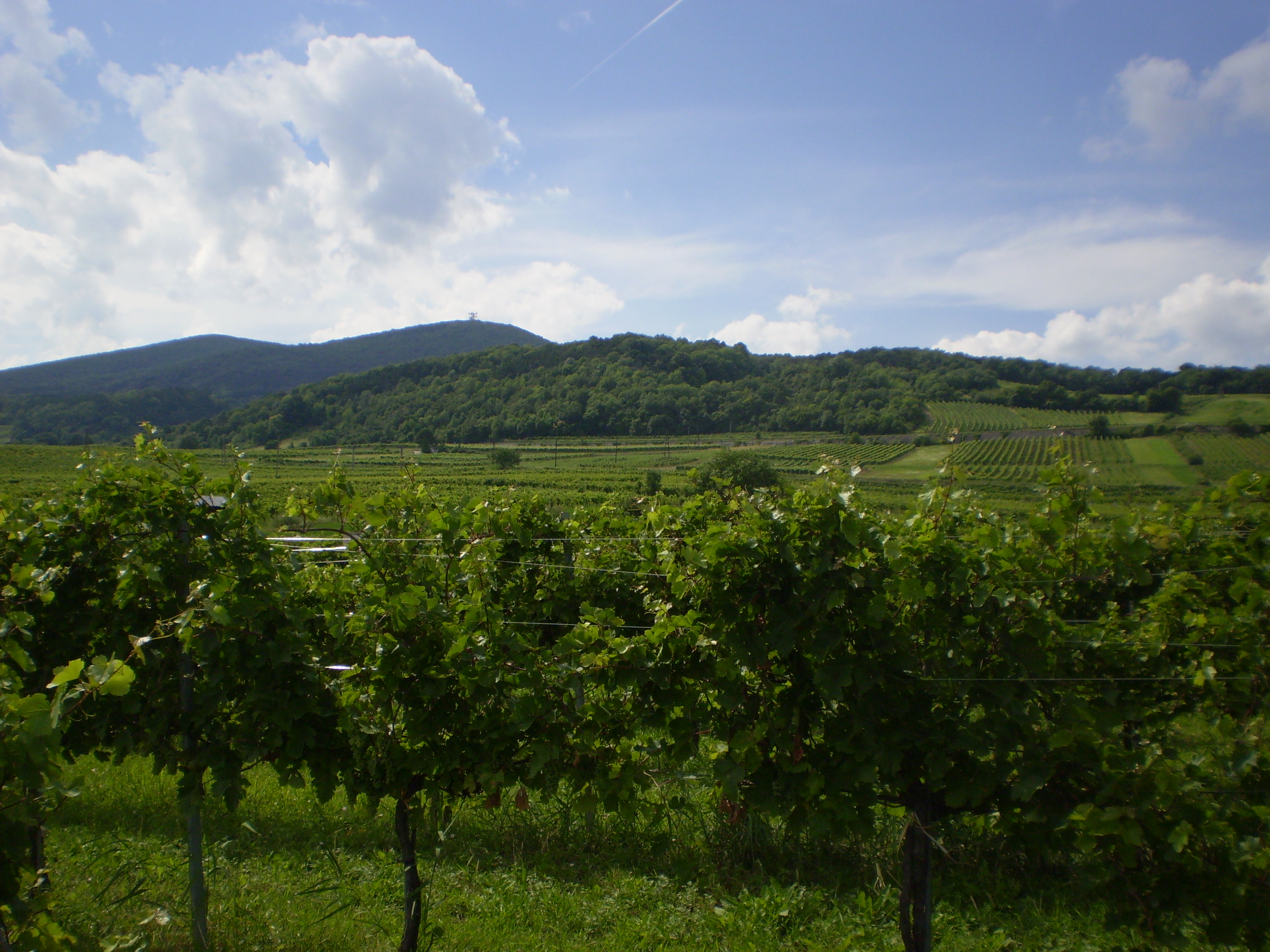 Vineyards in Gumpoldskirchen, Lower Austria. Anninger mountain in the back.